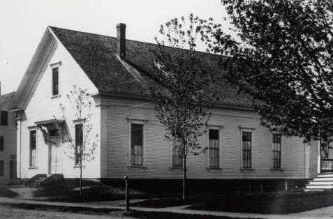 The former Sanford Town Hall in the the Springvale village of Sanford, Maine. Now a local history museum.